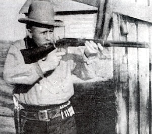 American lawman and gunfighter Bill Tilghman (1854-1924) posing with his Winchester rifle. Circa 1900